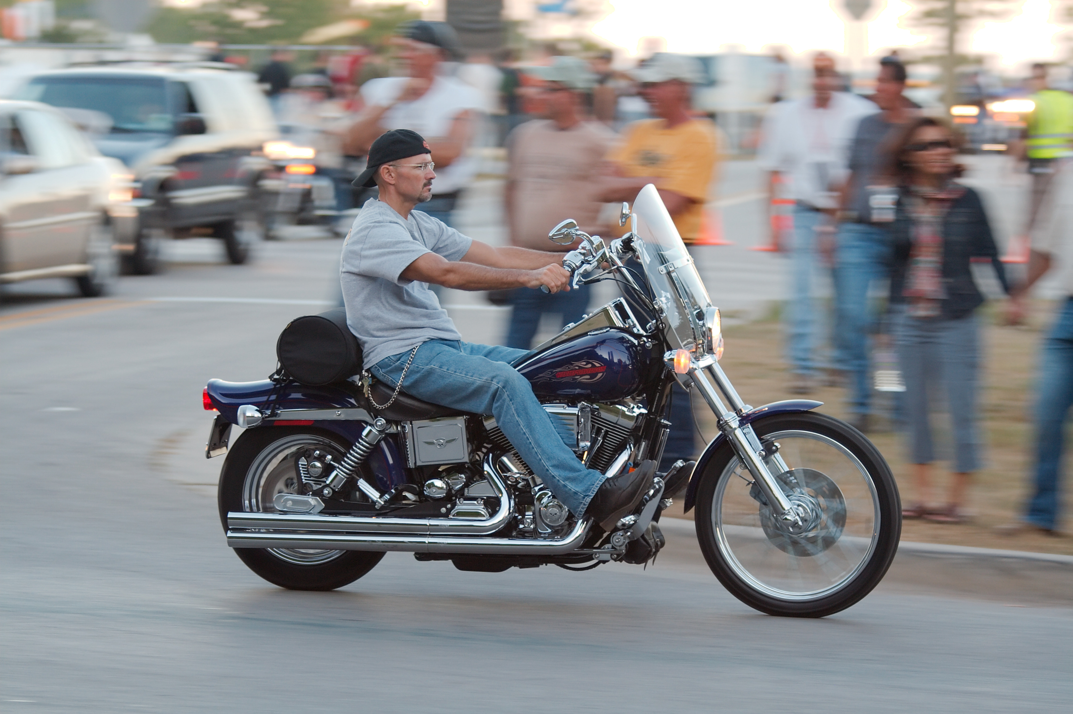 A biker during Harley-Davidson's 105th anniversary in Milwaukee, Wisconsin